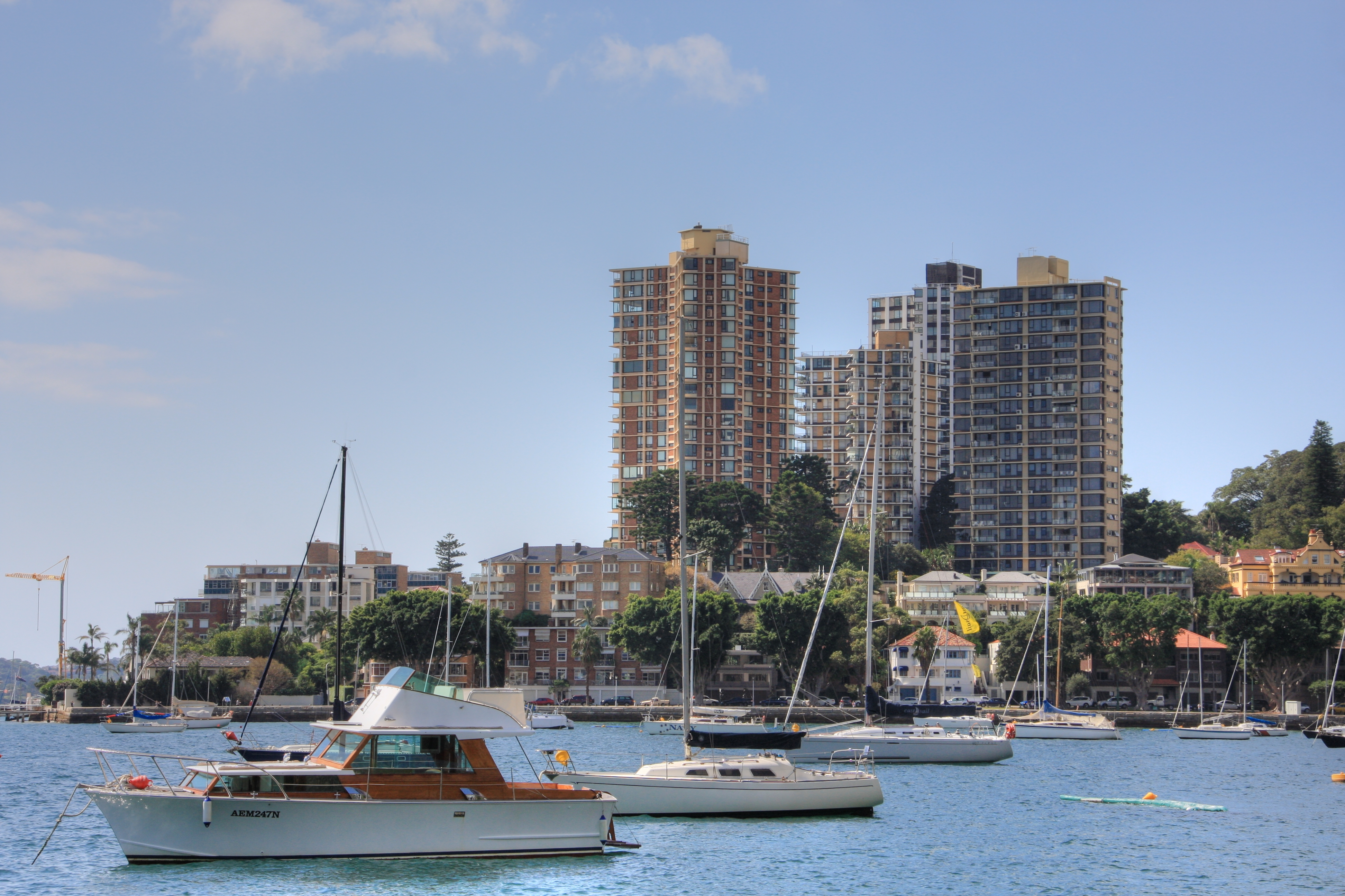 Darling Point New South Wales